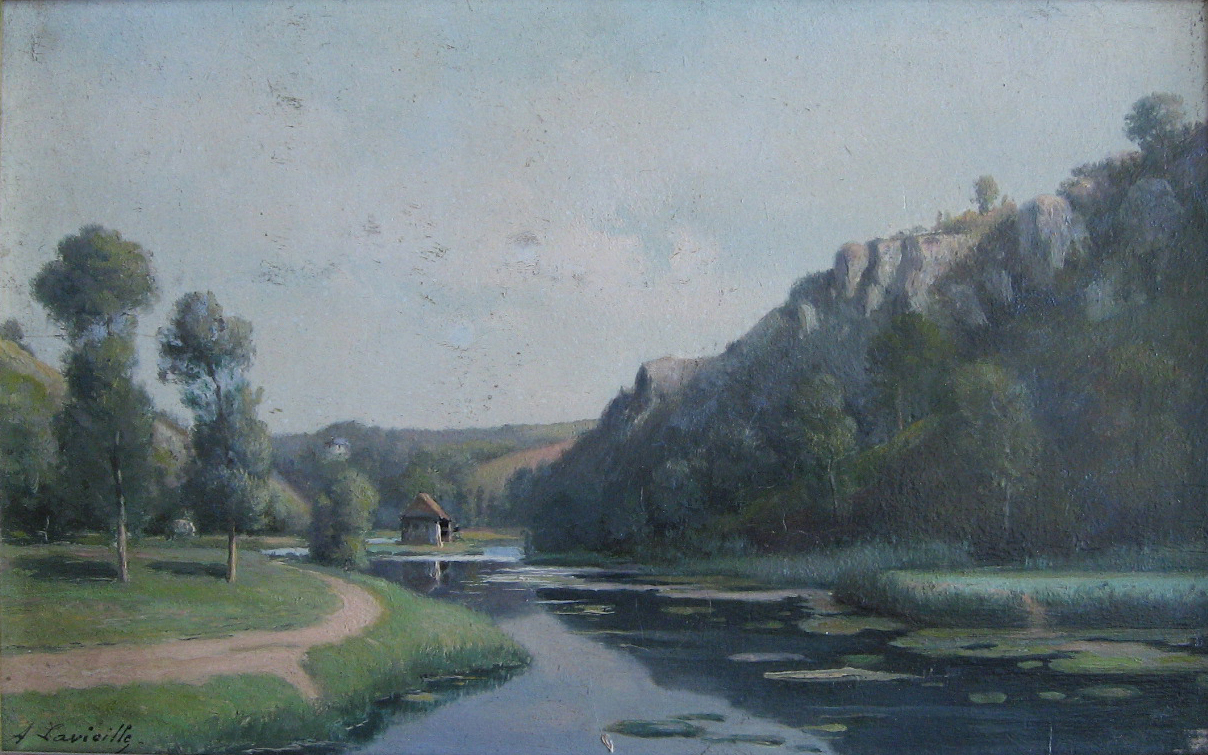 Oil painting on wood panel (18,8 x 30,6 cm) by Adrien Lavieille (1848-1920), showing a water-mill on the Vilaine, on south of Rennes, in Brittany (France).